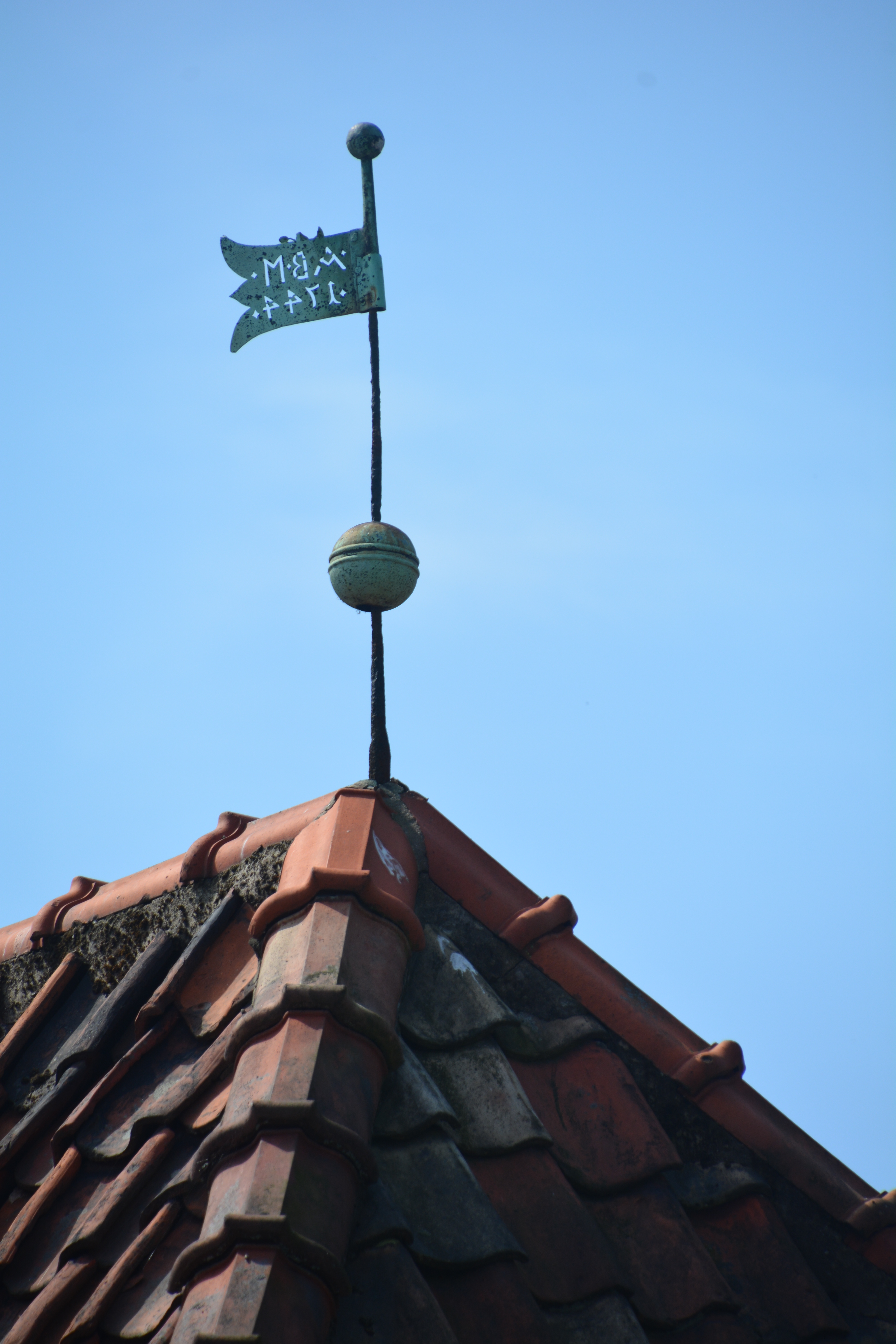 Weather vane at Coppersmith Master Anders Bergman's house, built 1744 at the corner of Kyrkogatan and Sankt Petri Kyrkogata in Lund, Sweden.